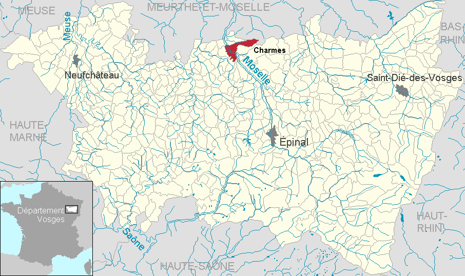 Charmes in the department of Vosges, Lorraine, France